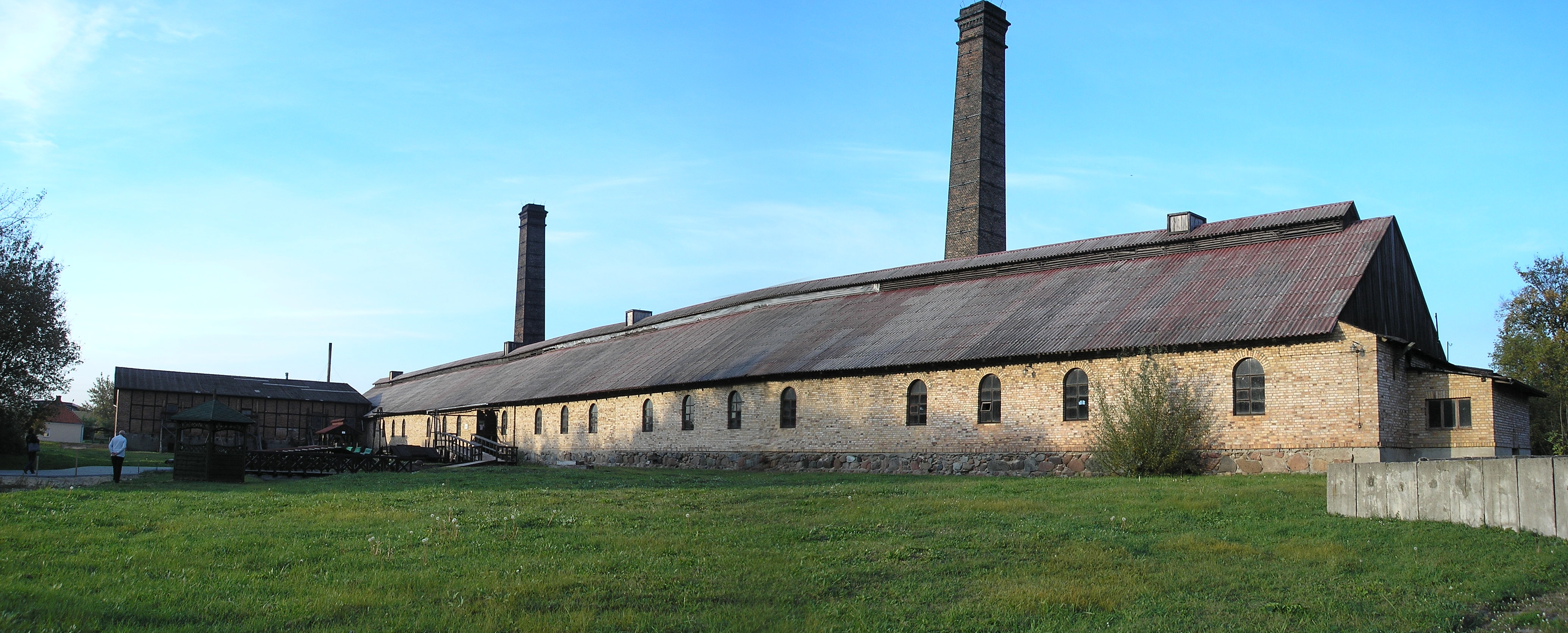 Poland, Ciechocinek